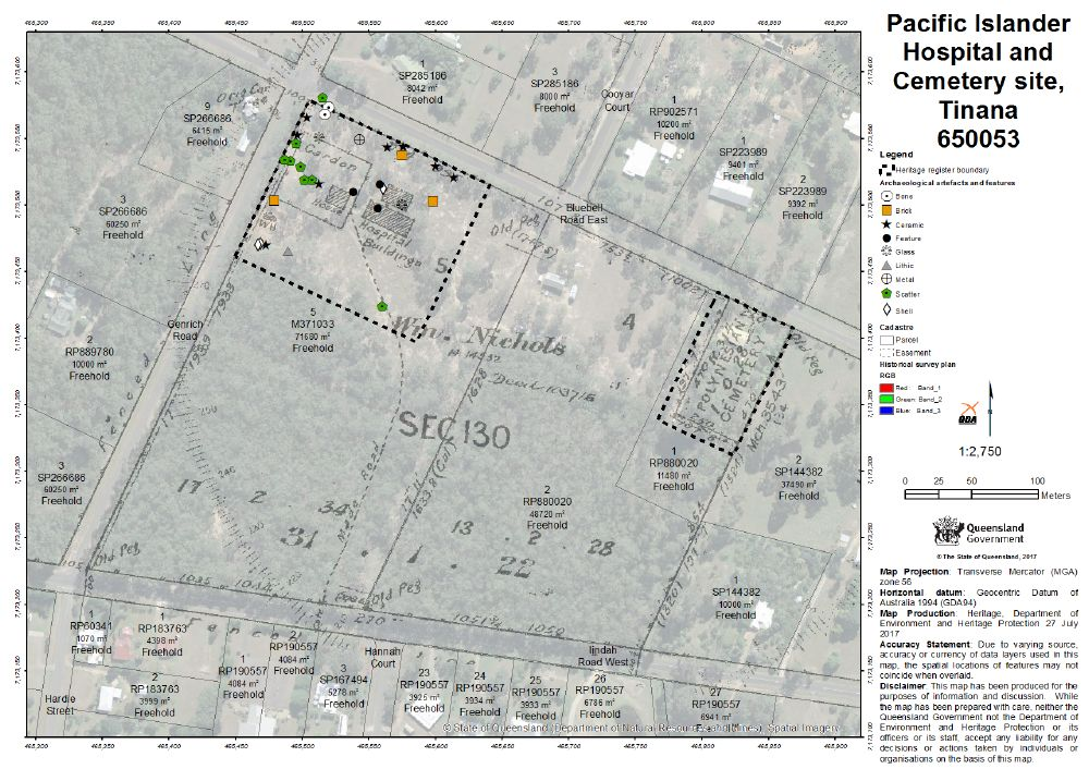 650053 - Pacific Islander Hospital and Cemetery site, Tinana - site plan with aerial imagery (2017)